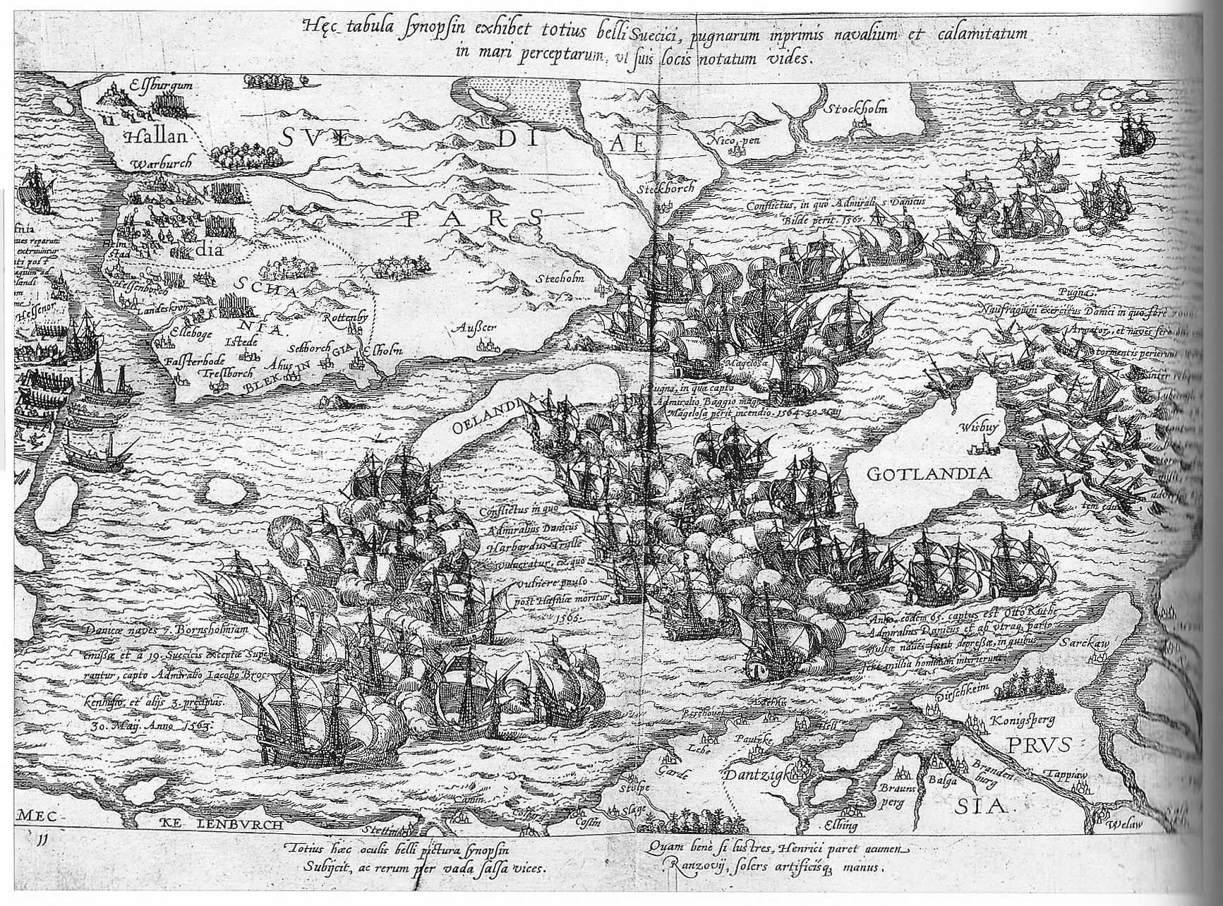 The maps shows several naval battles of the Northern Seven Years' War, for example the Battle of Bornholm 1563 (left), the Battle of Öland 1564 (top), the Battle of Gotland 1565 (center), the losses in the storm near Gotland 1566 (right) and another battle of 1567.